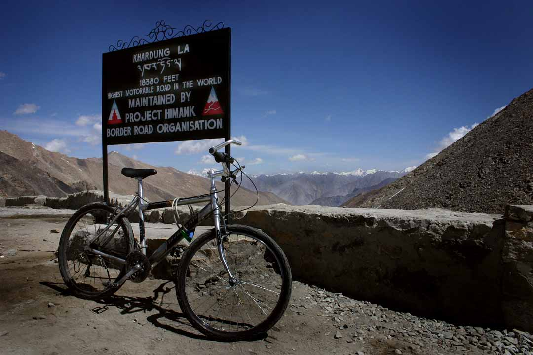 Mountain biking in the former Buddhist kingdom of Ladakh, now a part of India. Started at 18,380 feet elevation (the highest 'motorable' road in the world) and traveled 40 kilometers to 11,000 plus feet in 2 1/2 hours. What a blast! Canon EOS Digital Rebel / 18-55 Canon lens